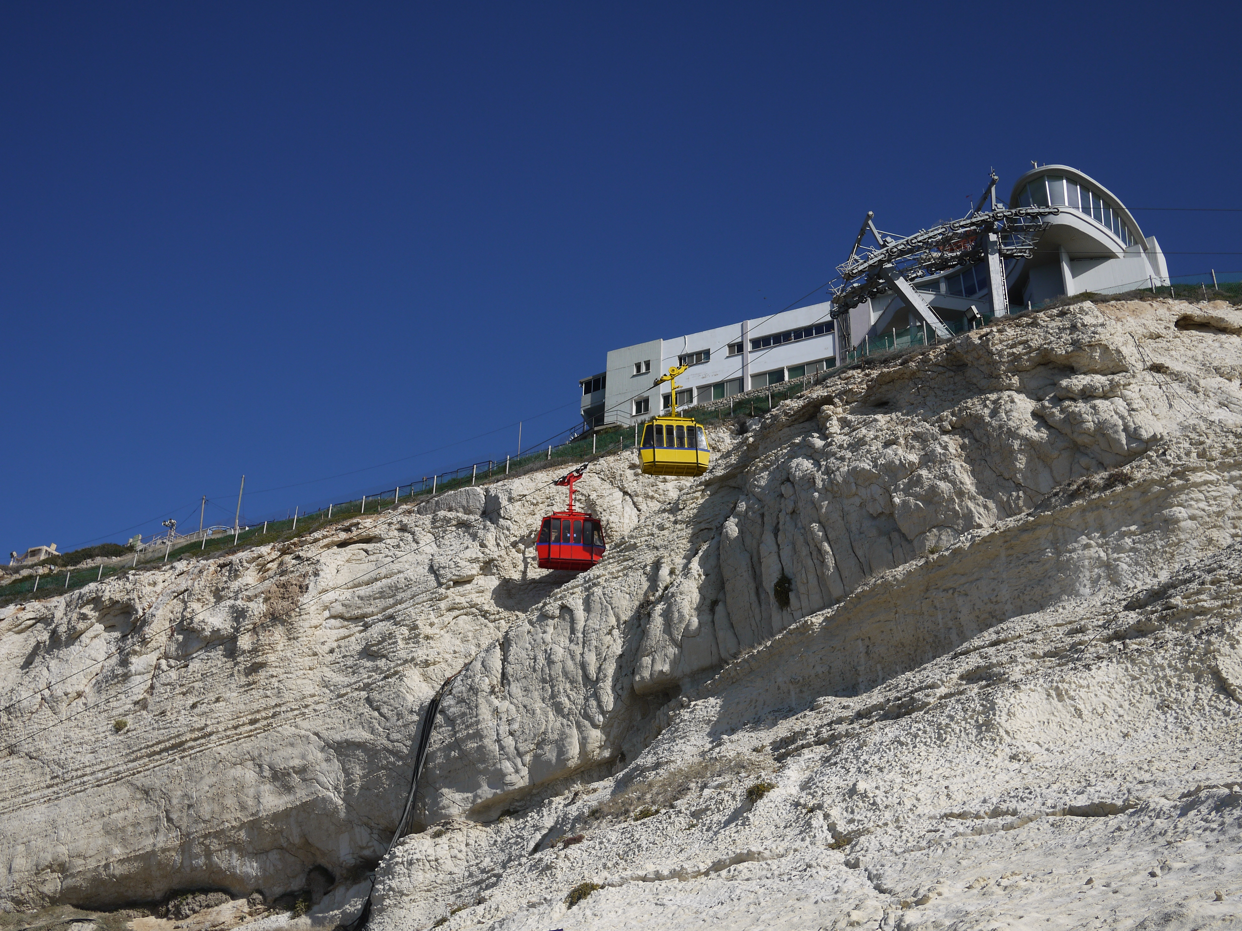 Rosh HaNikra cable car from bottom